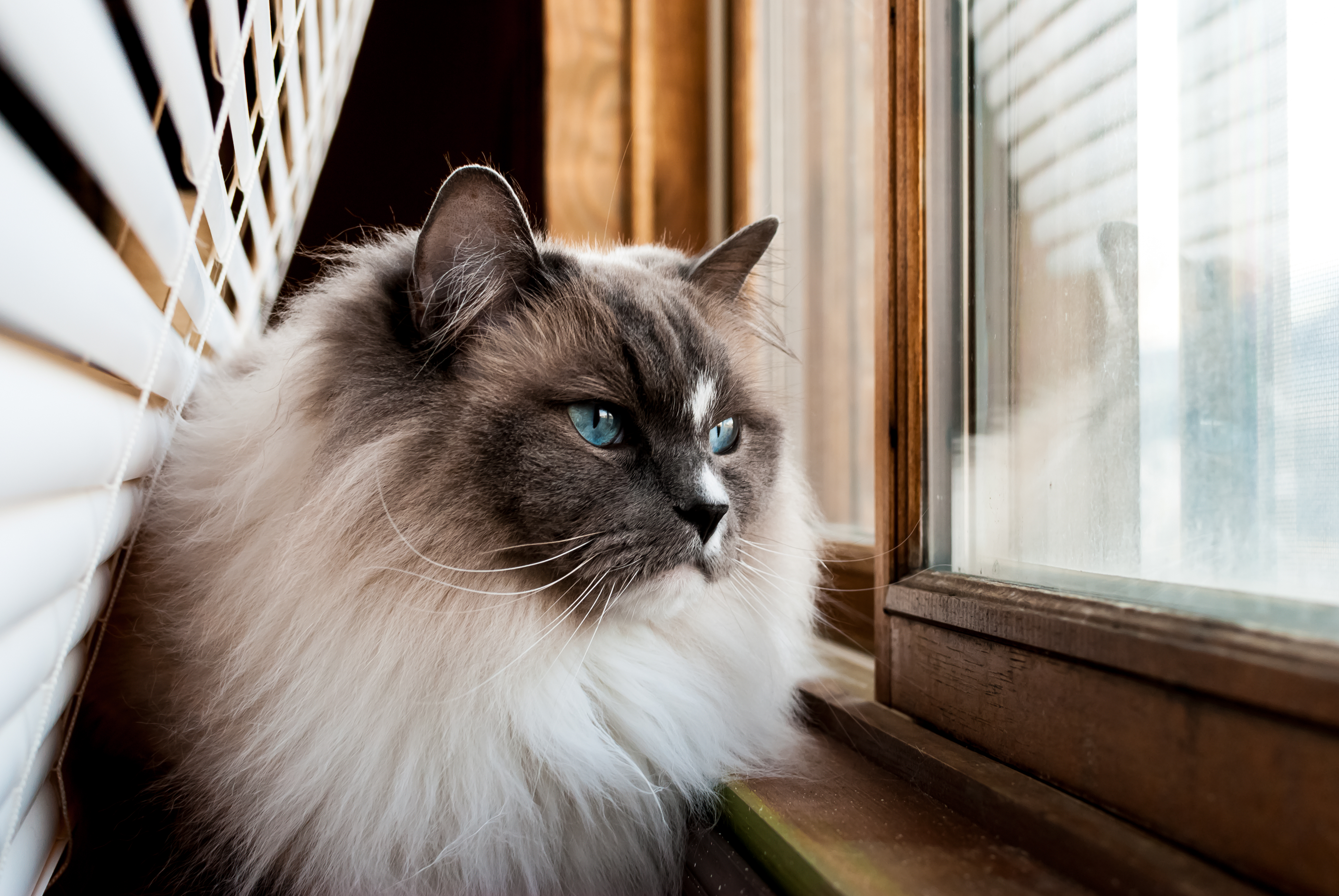 An adult Ragdoll cat looking out the window for birds